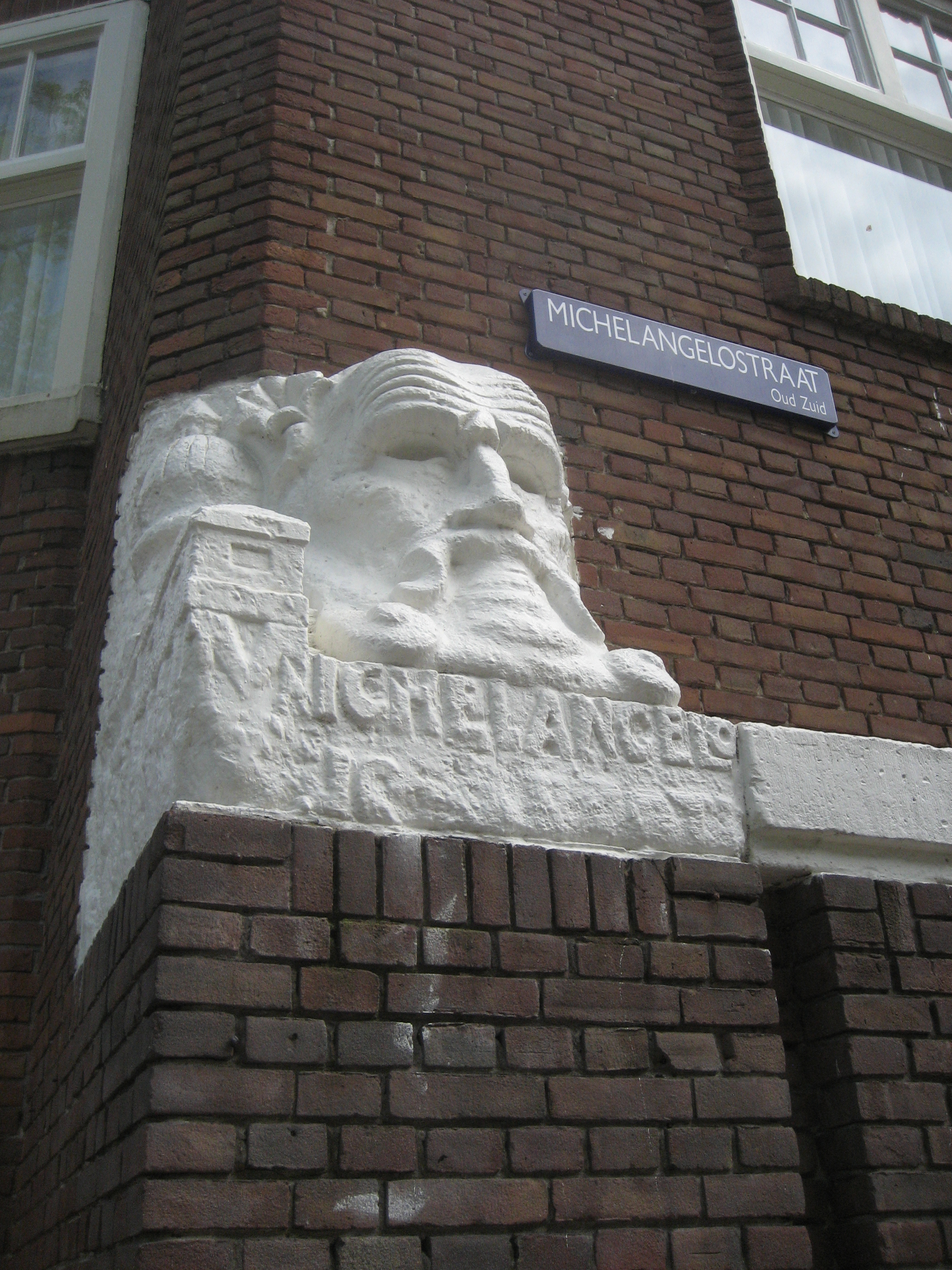 Michelangelostraat, corner Minervalaan, Amsterdam (The Netherlands). Sculptor: Anton Rädecker